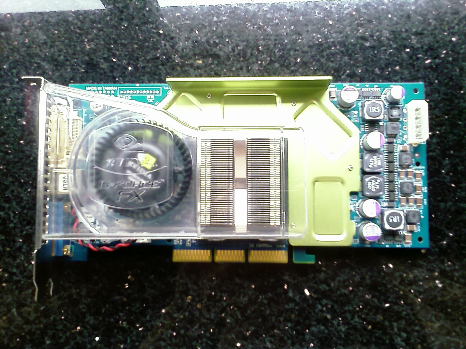 ASUS GeForce FX 5950 Ultra Graphic card